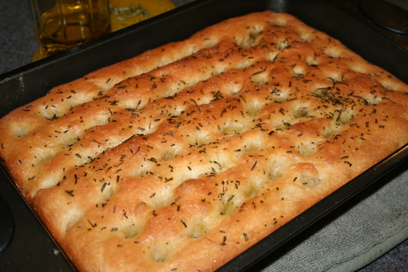 Appena sfornata! Just out of the oven!